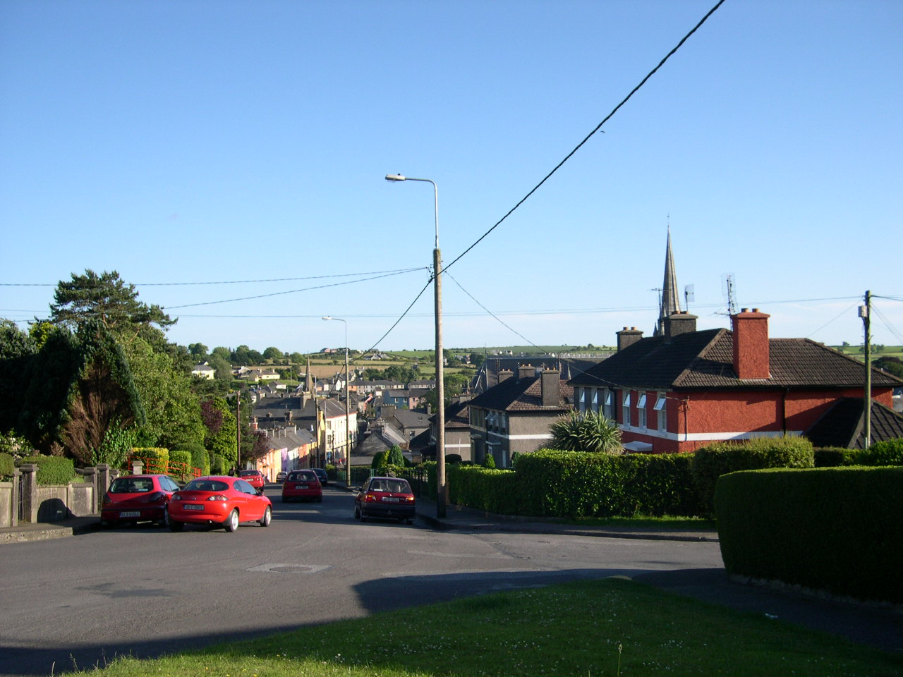 Clonakilty on a summer's evening